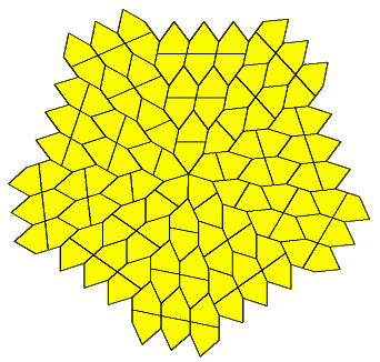 Pentagonal monohedral plane tiling with 5-fold rotational symmetry